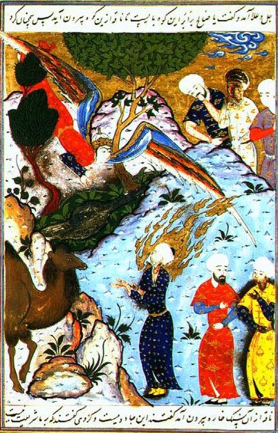 A depiction of Salih inviting his people to see the She-Camel, from an illuminated manuscript version of Stories of the Prophets.